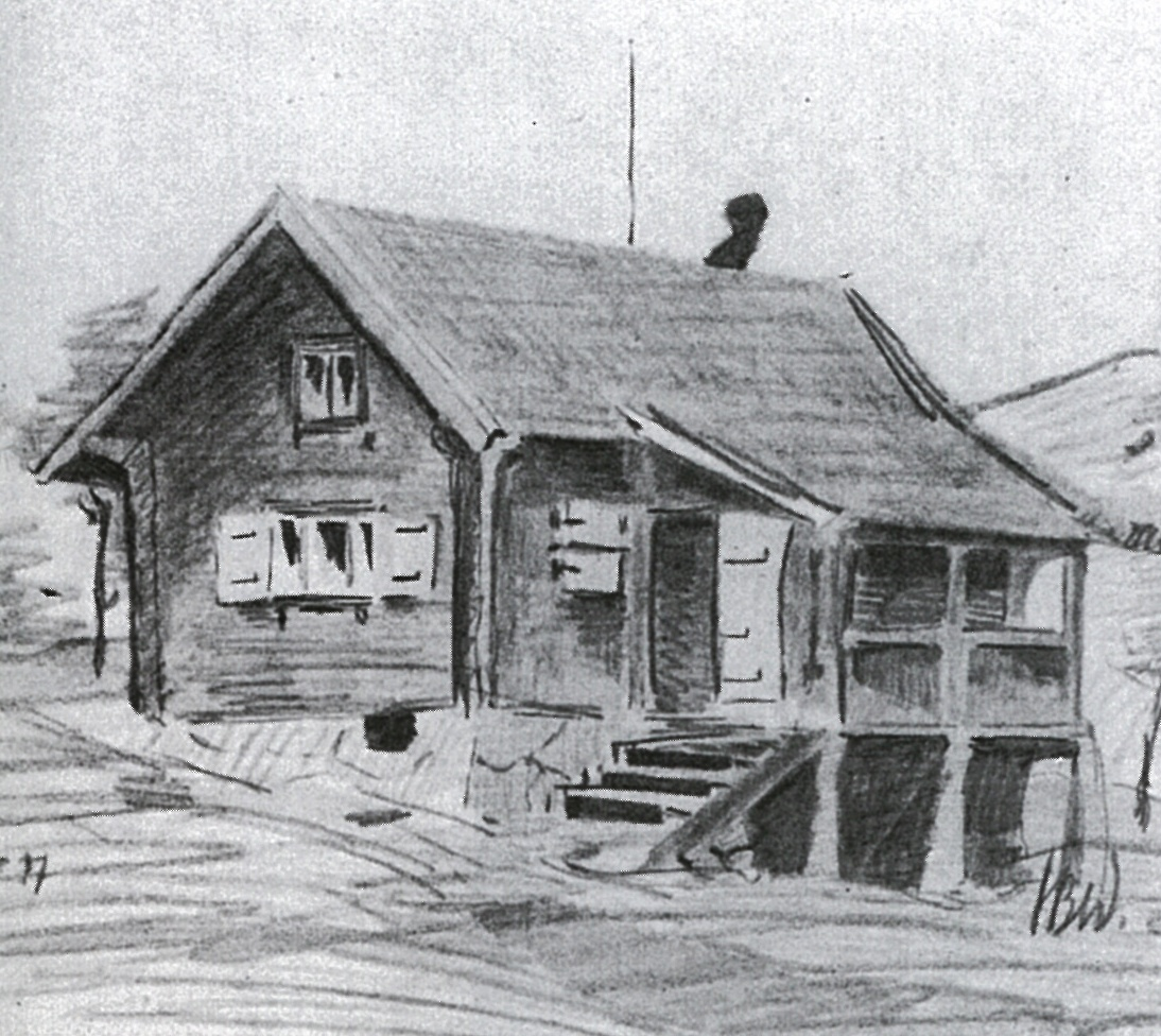 Wentzel-hytta in Asker, Norway; cabin of Kitty and Gustav Wentzel when they lived in Asker in the 1890's; now a scouts cabin.